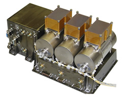 "XRS maps the elements in the top millimeter of Mercury’s crust using three gas-filled detectors (Mercury X-Ray Unit, or MXU) pointing at the planet, one silicon solid-state detector pointing at the Sun (Solar Assembly for X-rays, or SAX), and the associated electronics (Main Electronics for X-rays, or MEX). The planet-pointing detectors measure fluorescence, the X-ray emissions coming from Mercury’s surface after solar X-rays hit the planet. The Sun-pointing detector tracks the X-rays bombarding the planet. XRS detects emissions from elements in the 1-10 kiloelectron-volt (keV) range – specifically, magnesium, aluminum, silicon, sulfur, calcium, titanium, and iron. Two detectors have thin absorption filters that help distinguish among the lower-energy X-ray lines of magnesium, aluminum, and silicon. Beryllium-copper honeycomb collimators give XRS a 12° field of view, which is narrow enough to eliminate X-rays from the star background even when MESSENGER is at its farthest orbital distance from Mercury. The small, thermally protected, solar-flux monitor is mounted on MESSENGER’s sunshade."